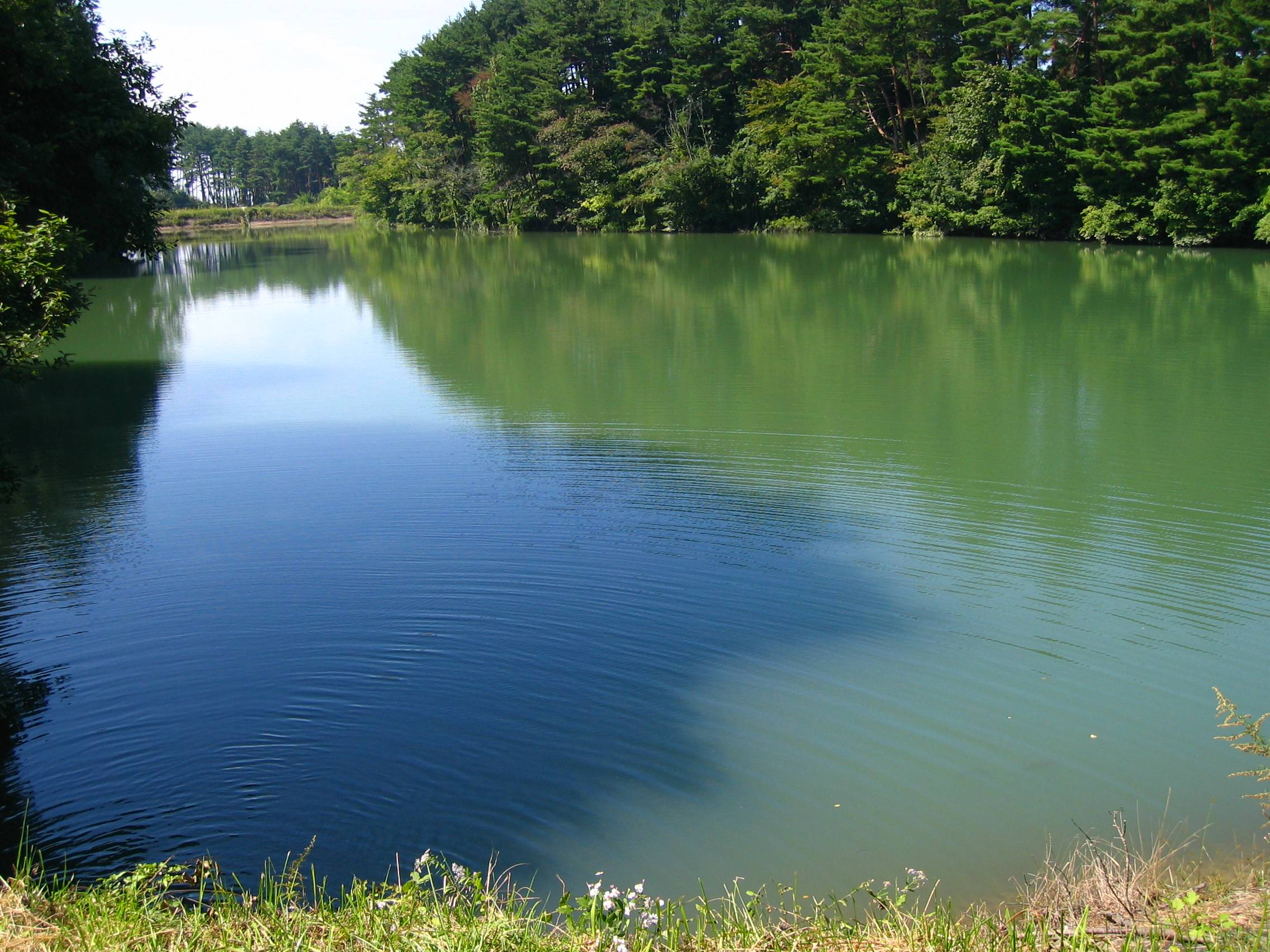 Banbaike (番場池) is a pond in Matsumoto city, Nagano prefecture, Japan. Nearby a lake is Lake Misuzuko (美鈴湖).